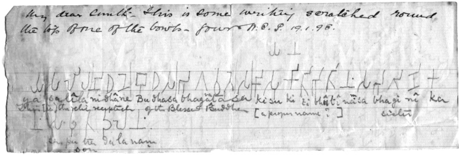 Piprawa note by W.C. Peppe 1898